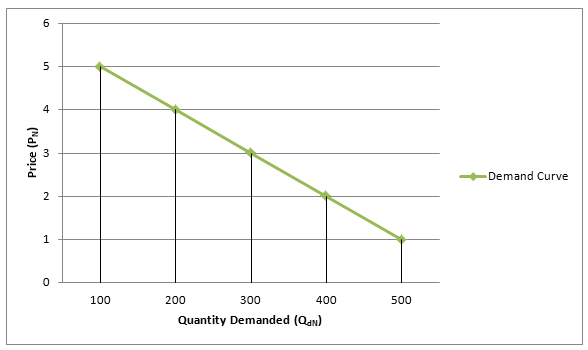 An example of demand curve